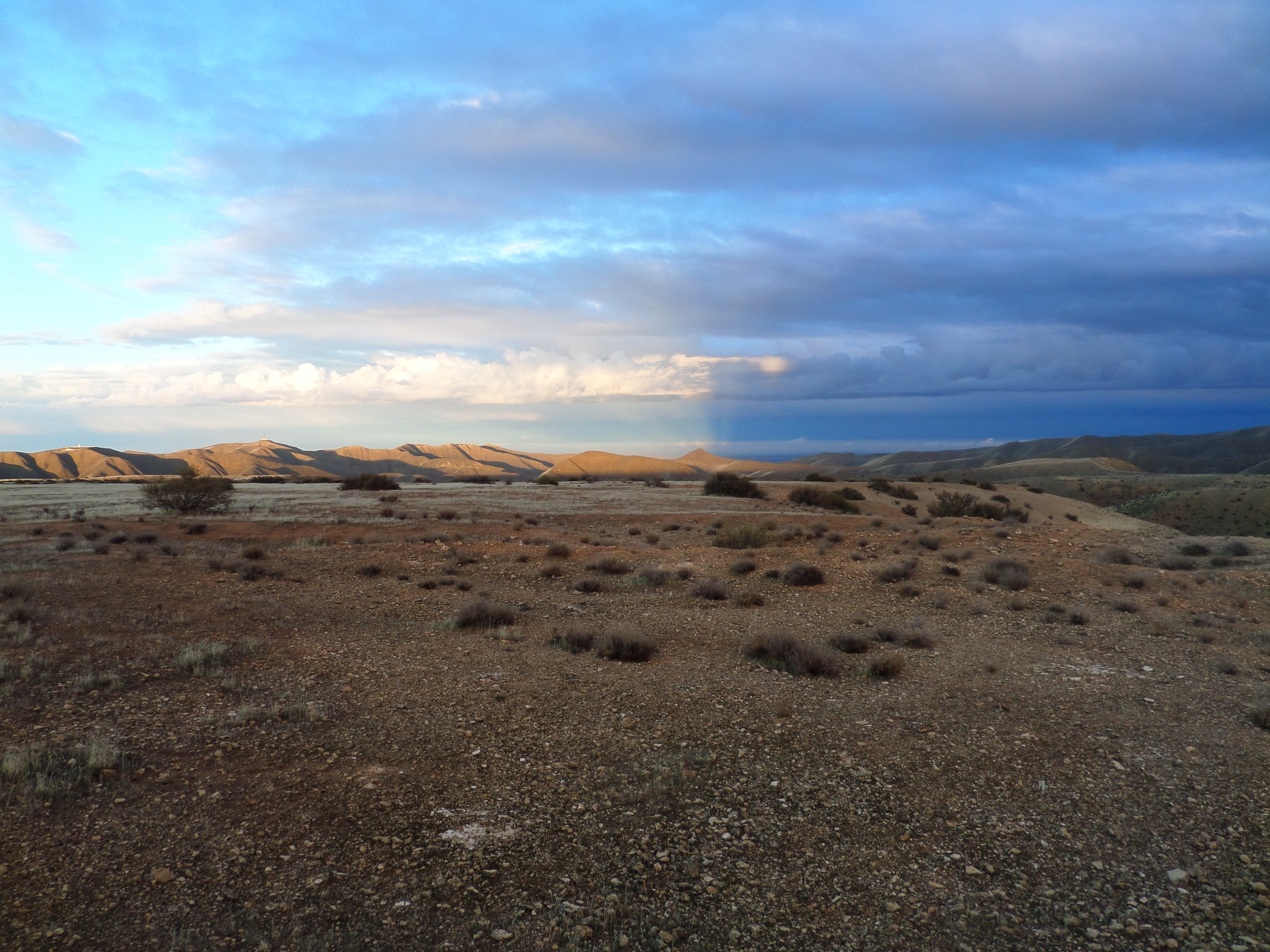 Afternoon to evening in the Panoche Hills. December 2015.